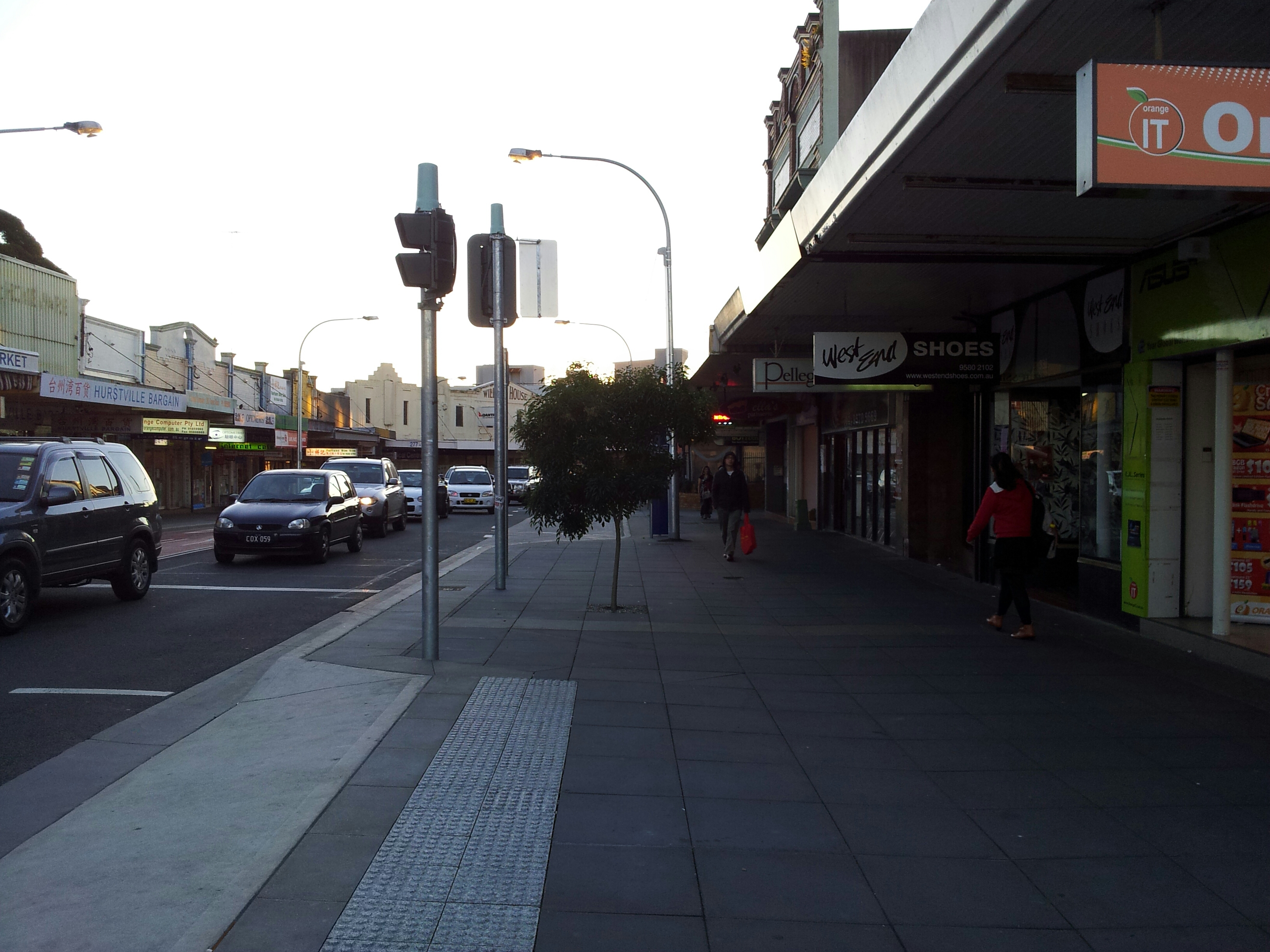 Hurstville NSW 2220, Australia